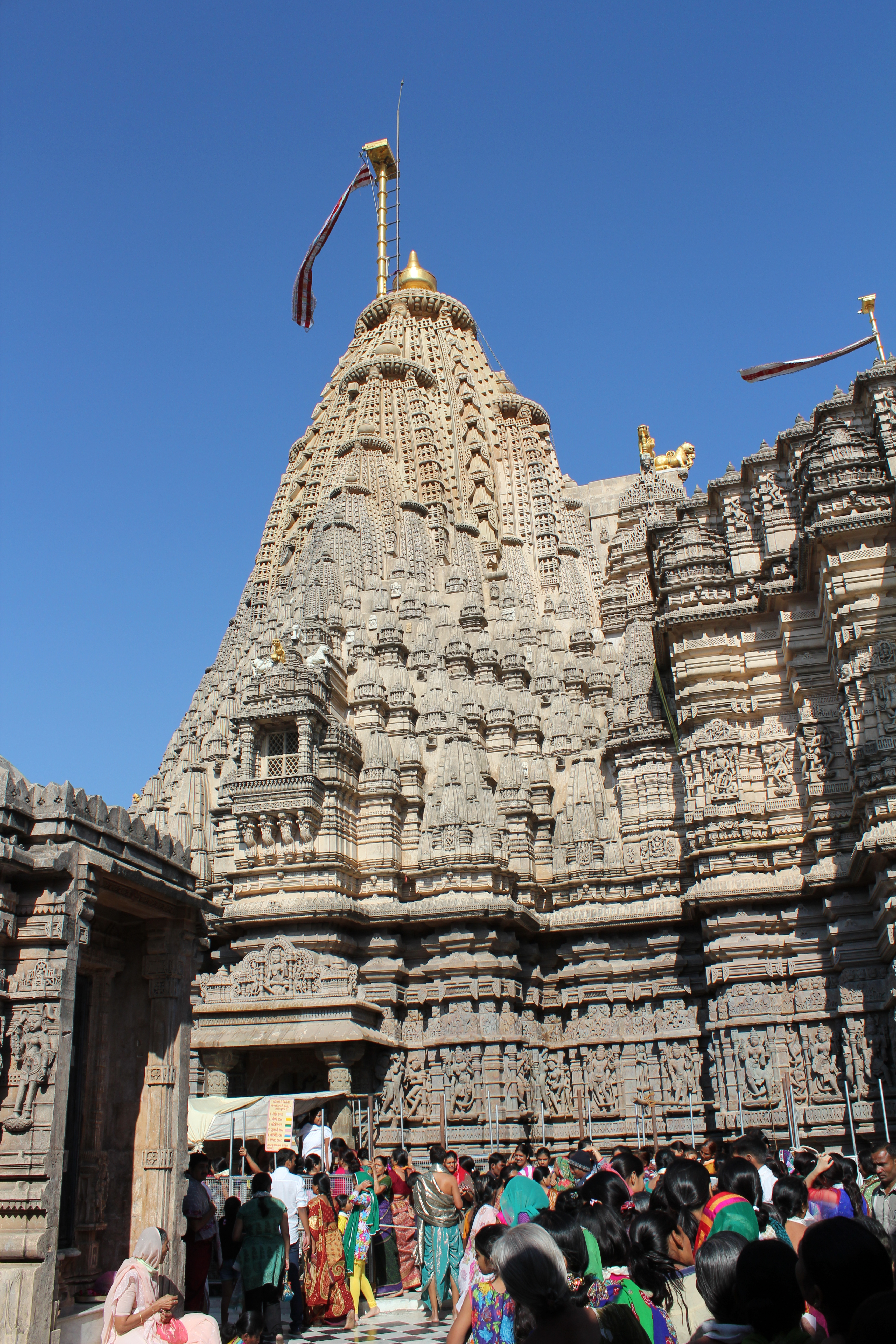 Palitana, Shatrunjaya, women waiting in line to enter the main Adishwar Temple Palitana (formerly known as Padliptapur) is a city in the state of Gujarat, India. It is a major pilgrimage centre for Jains, and has been nicknamed "City of Temples". The Palitana temples of Jainism are located on the Shatrunjaya Hill. Along with Shikharji in the state of Jharkhand, the two sites are considered the holiest of all pilgrimage places by the Jain community. As the temple-city was built to be an abode for the divine, no one is allowed to stay overnight, including the priests. Every Jain believes that a visit to this group of temples is essential as a once in a life time chance to achieve nirvana or salvation. This site on Shatrunjaya hill is considered sacred by Jains. There are approximately 863 marble-carved temples on the hills.The main temple is reached by stepping up 3500 steps. It is said that 23 tirthankaras (a human being who helps in achieving liberation and enlightenment), except Neminatha (a liberated soul which has destroyed all of its karma), sanctified the hill by their visits. The main temple is dedicated to Rishabha, the first tirthankara; it is the holiest shrine for the Svetambara Murtipujaka sect. Digambara Jain have only one temple here. The Adishvara Temple, dated to the 16th century, has an ornamented spire; its main image is that of Rishabha. (source